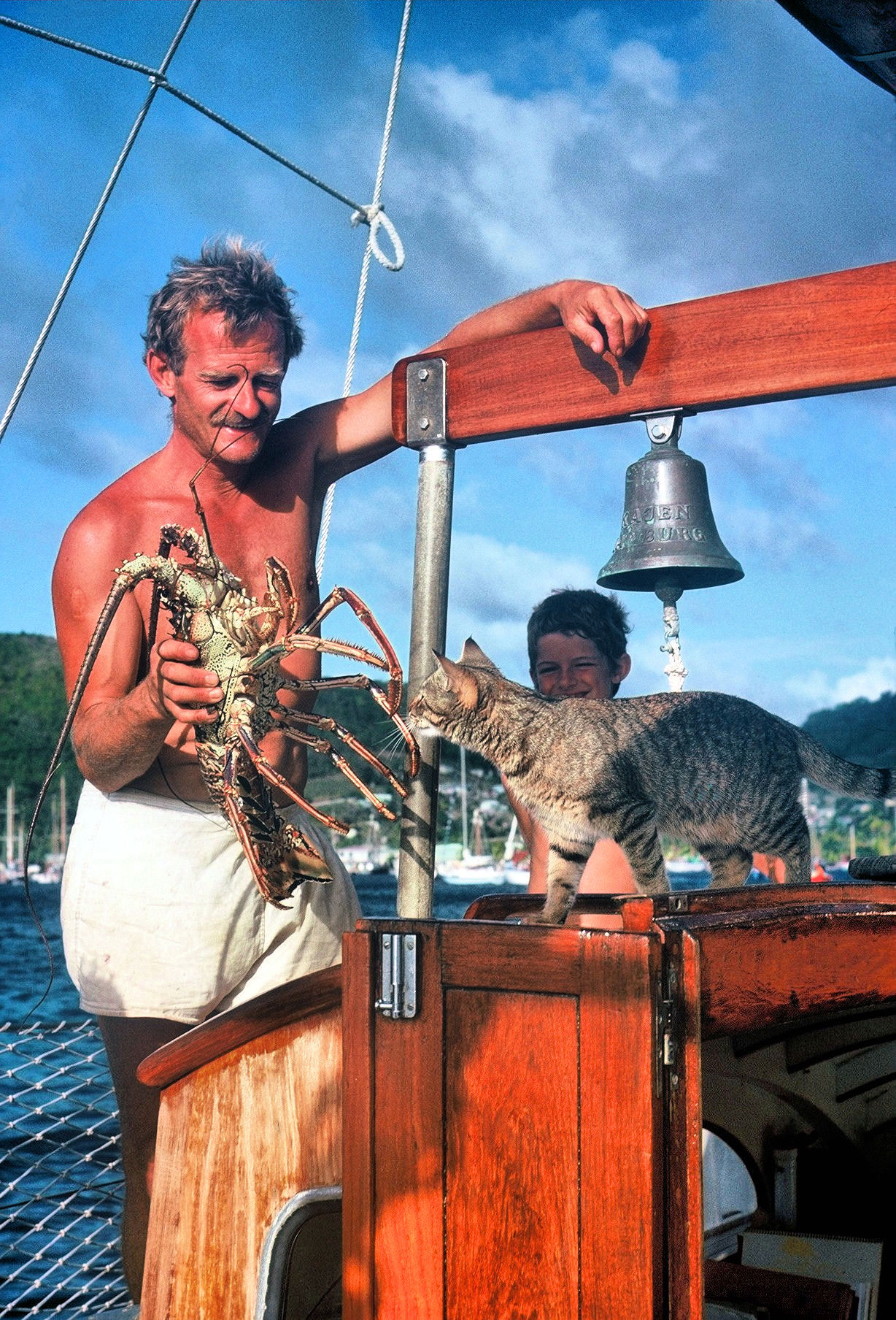 Dr. Hans Breuer on board the sailing ship Kajen, with his son Klaus and cat Kasperle.